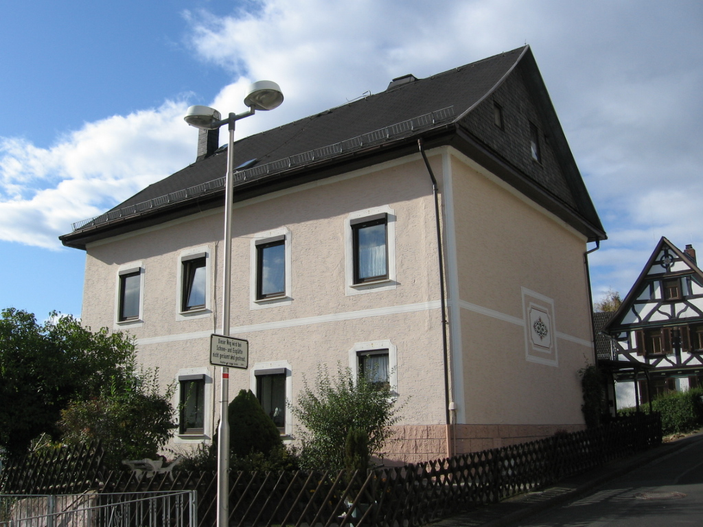 Old school (built of rammed earth in 1836/37) in Bonbaden (district Lahn-Dill, Hesse)